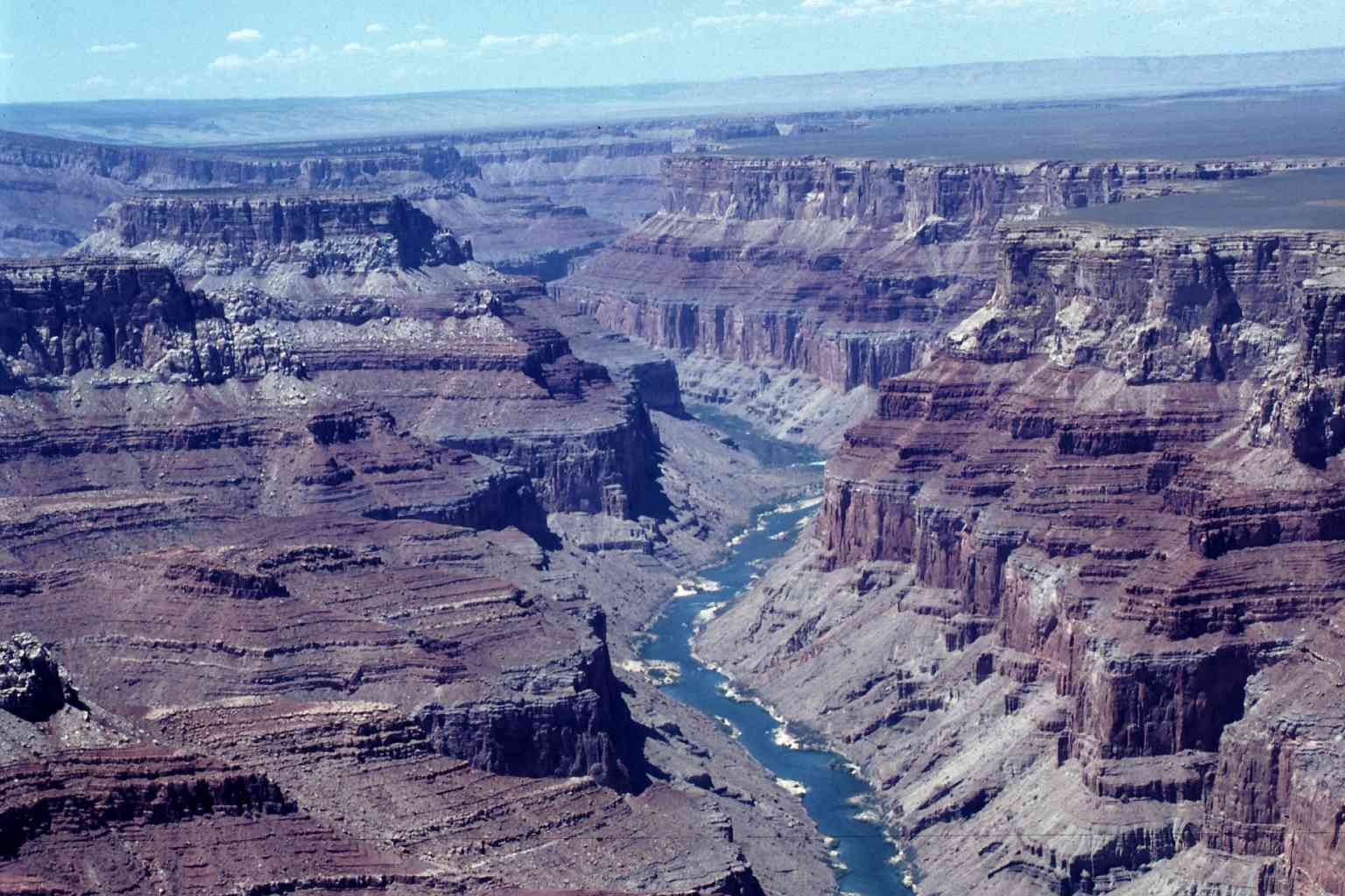 Grand Canyon viewed from West to East, Arizona, USA